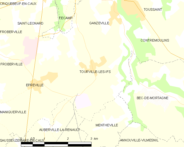 Map of French municipality Tourville-les-Ifs